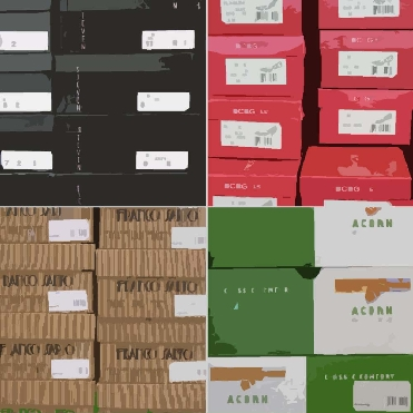 A Photoshop-enhanced image of shoe boxes on display in a, errrr... shoe shop